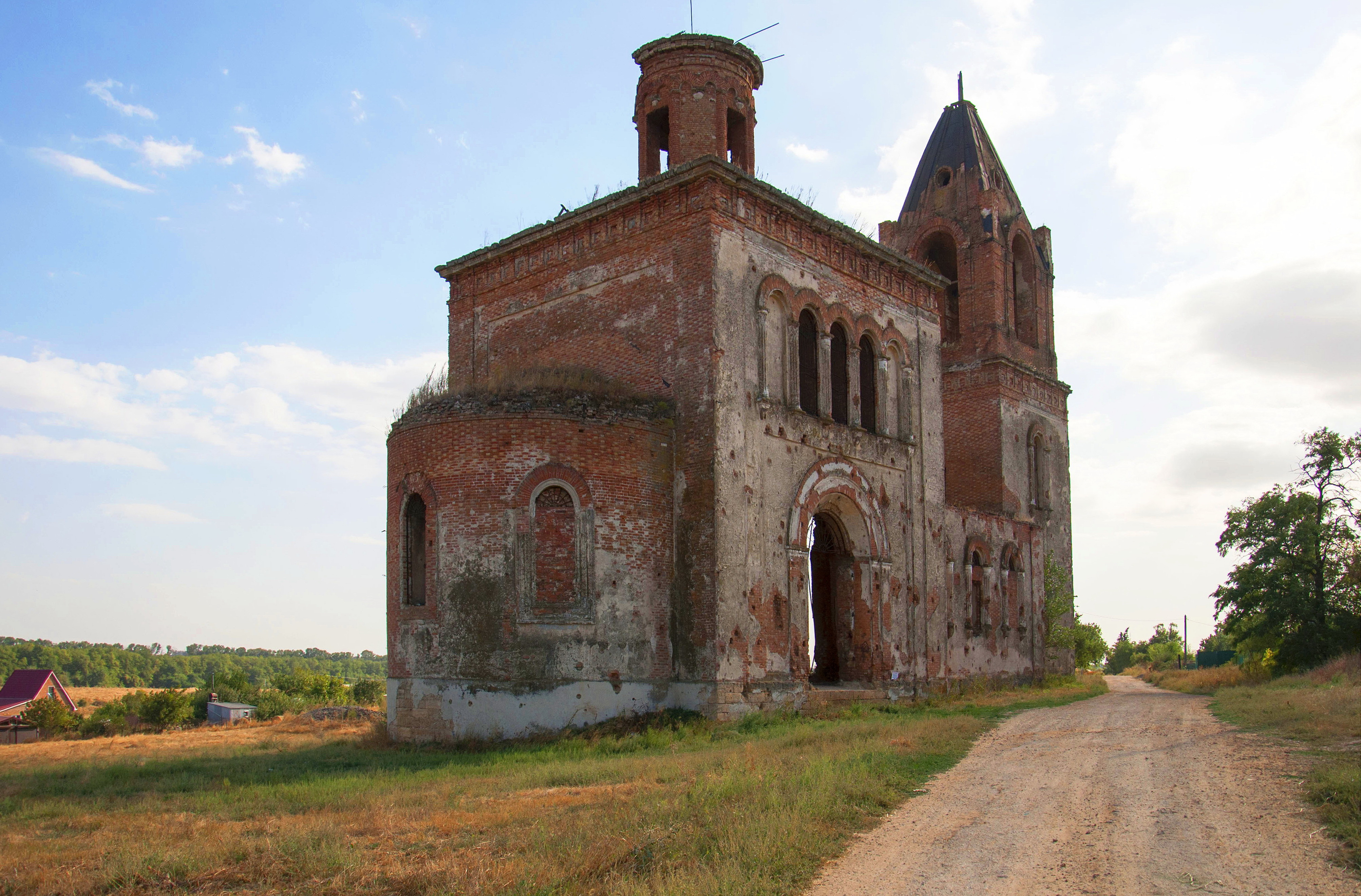 The Armenian Apostolic Church Surb Gevorg (St. George) in the village of Sultan Salah (Rostov region, Myasnikovsky region, Russia)